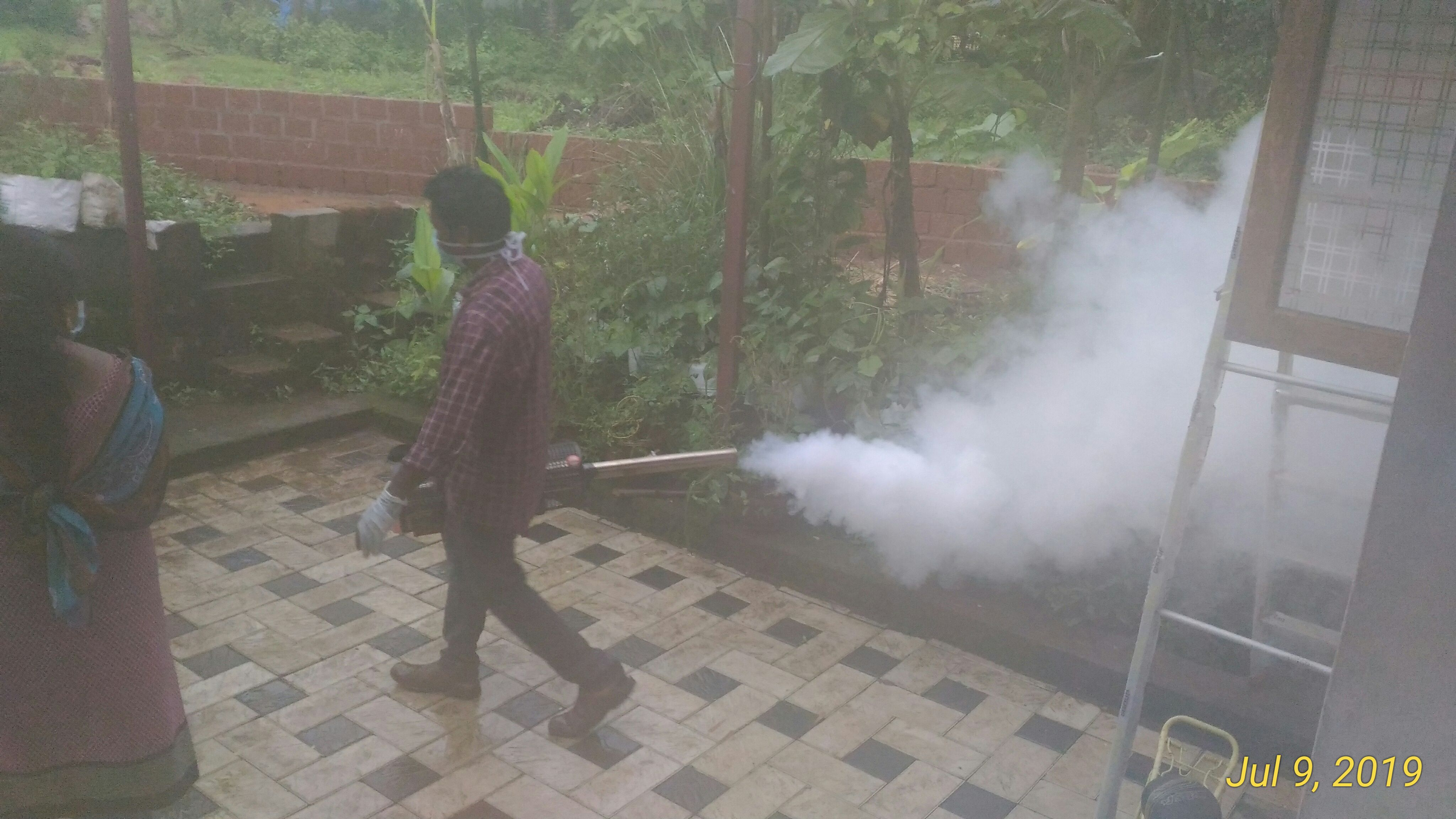 Fogging is a technique used for killing insects that involves using a fine pesticide spray (aerosol) which is directed by a blower.